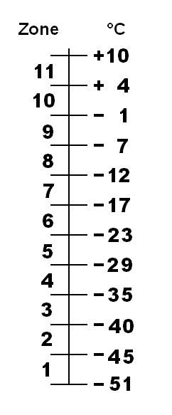 Scale of USDA Plant Hardiness zones